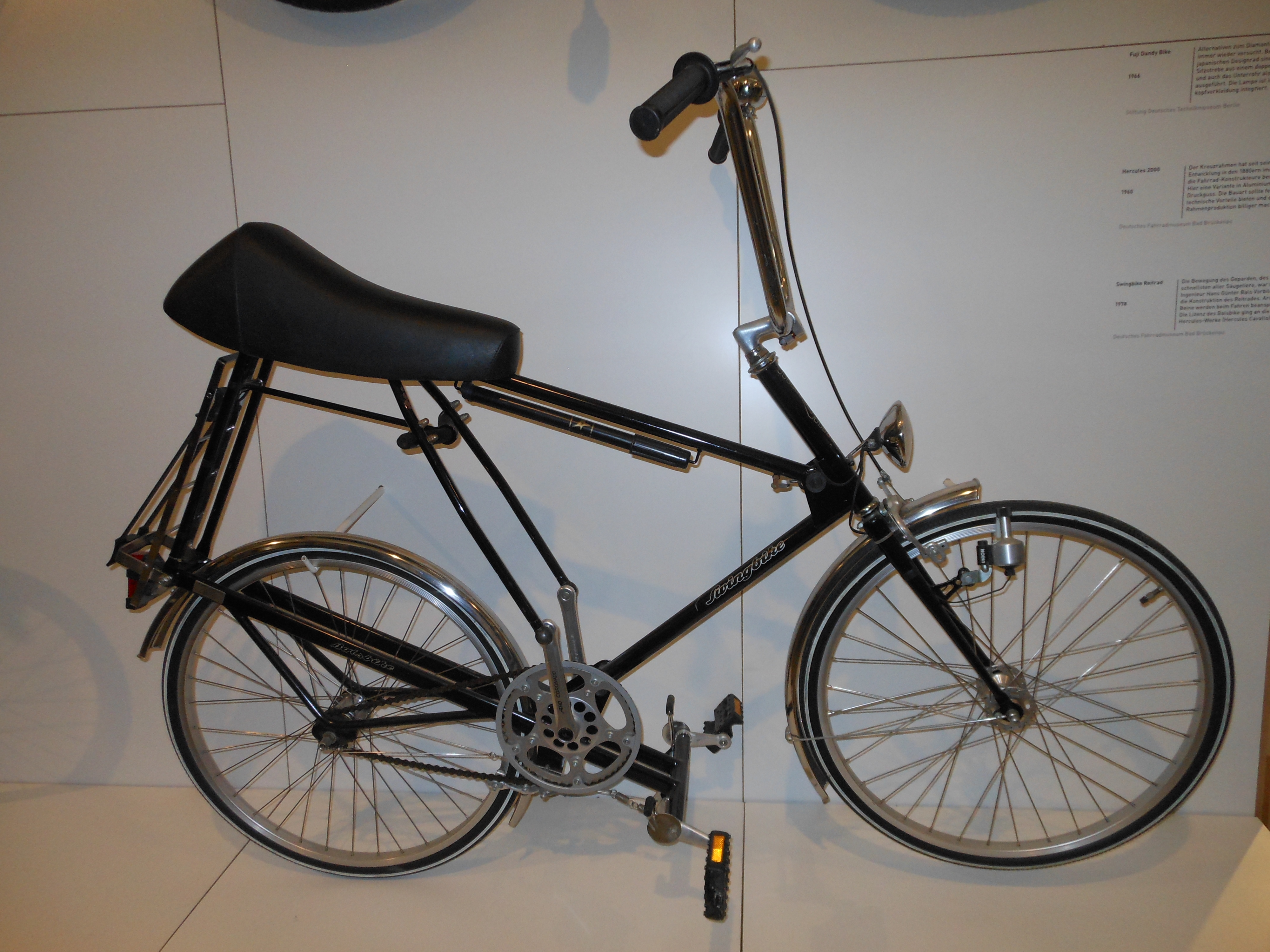 Developed by Hans Günter Bals in 1979. The "balsbike" got licensed by Hercules-Werke in Nuremberg and produced as "Hercules Cavallo".